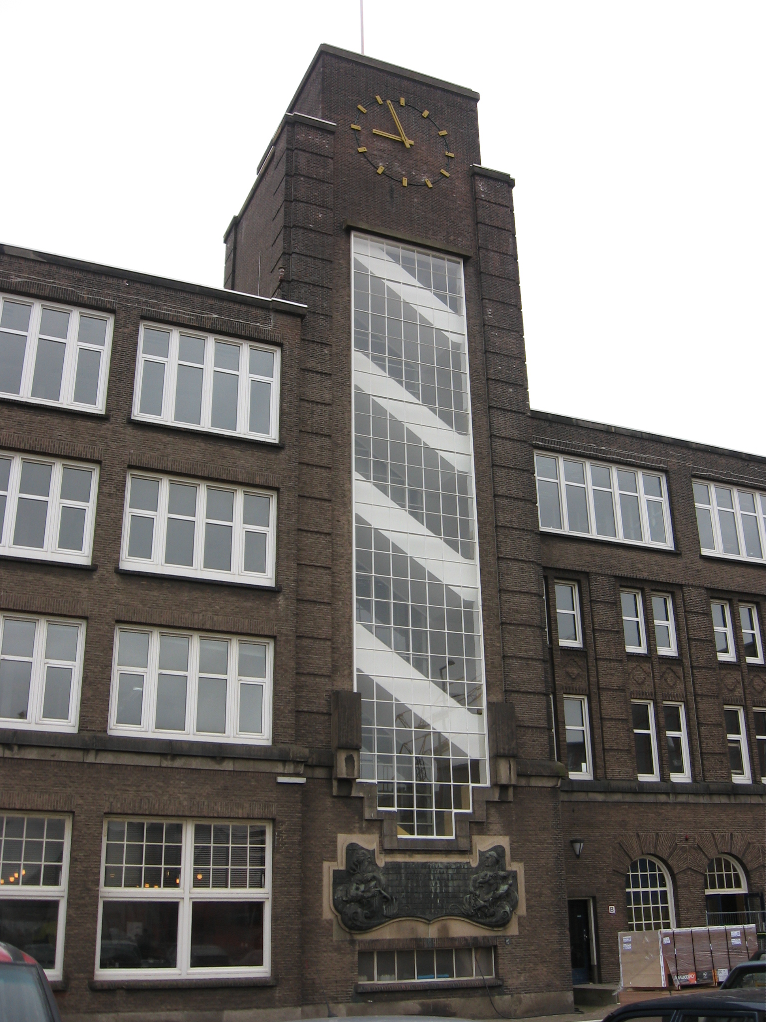 Rotterdamsche Droogdok Maatschappij, Rotterdam. Voormalig directiekantoor aan de kade in Heijplaat.